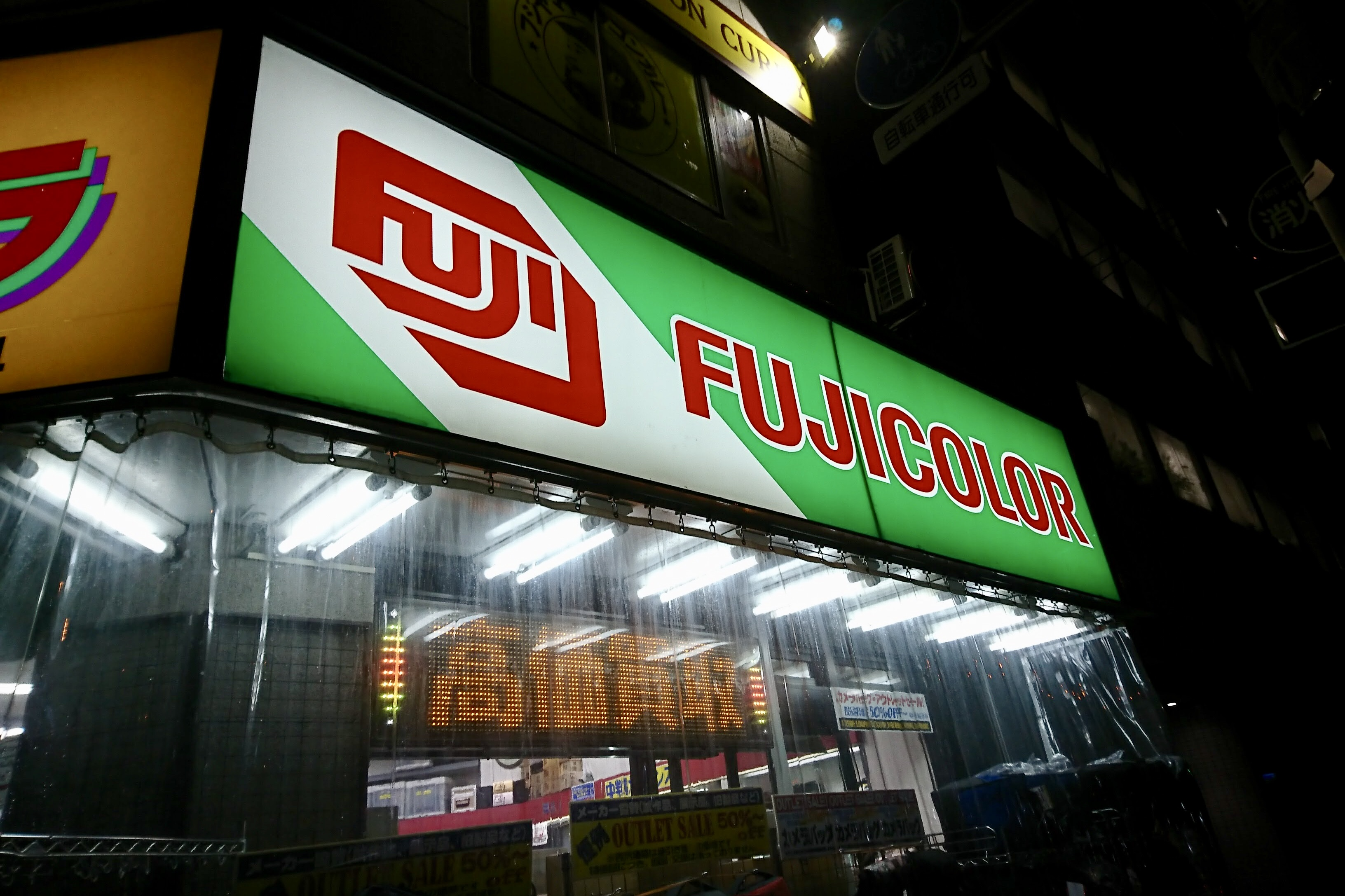 A Fuji-film's old sign